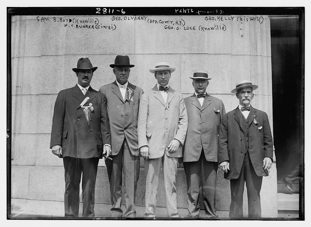 Bain News Service,, publisher. Samuel Becket Boyd II, George Washington Olvanny, Kelly, Henry Clemons Bunker, and George O. Luce in 1913 in New York City. They may have been meeting for the dedication of the Firemen's Memorial in Riverside Park in Manhattan in New York City on September 5, 1913. Note that they have shared pins and pennants with each other. 1 negative : glass ; 5 x 7 in. or smaller. Notes: Title from unverified data provided by the Bain News Service on the negatives or caption cards. Forms part of: George Grantham Bain Collection (Library of Congress). Format: Glass negatives. Repository: Library of Congress, Prints and Photographs Division, Washington, D.C. 20540 USA, General information about the Bain Collection is available at Persistent URL: Call Number: LC-B2- 2811-6